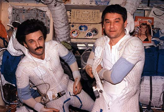 Mission specialist John Blaha (not in frame) photographs his fellow Mir-22 cosmonauts - Mir-22 commander Valeri Korzun and flight engineer Alexander Kaleri - in their Russian liquid cooling and ventilation garments while they prepare for an extravehicular activity (EVA). The photo was taken in the Mir Space Station Base Block module.